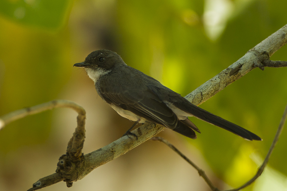 Northern Fantail - Darwin_S4E4576